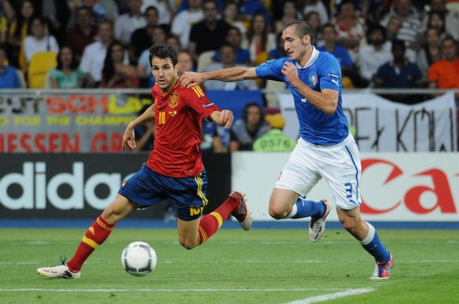 Cesc Fàbregas and Giorgio Chiellini at Euro 2012 final Spain-Italy